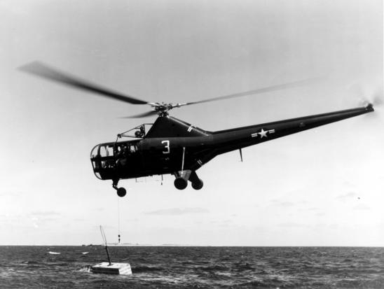 A U.S. Navy Sikorsky HO3S-1 helicopter picks up water sample from balsa raft attached to a water sample cable at Eniwetok during Operation Sandstone, a series of nuclear weapon tests in 1948.